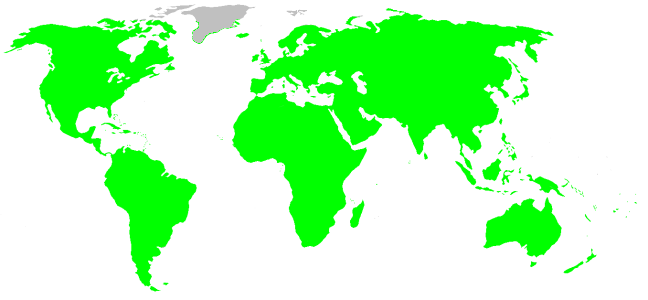 Thomisidae habitat distribution, drawn after Platnick: World Spider Catalog 7.0. This is not at all a precise rendering of the distribution! If you have better information, please replace this map, or send me the info, and i will redraw it.